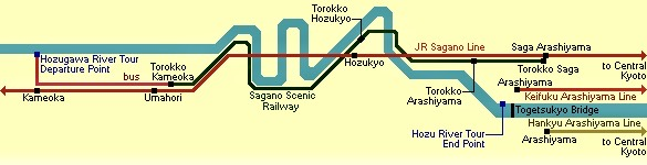 Railways map shows the name of all station in Sagano Line